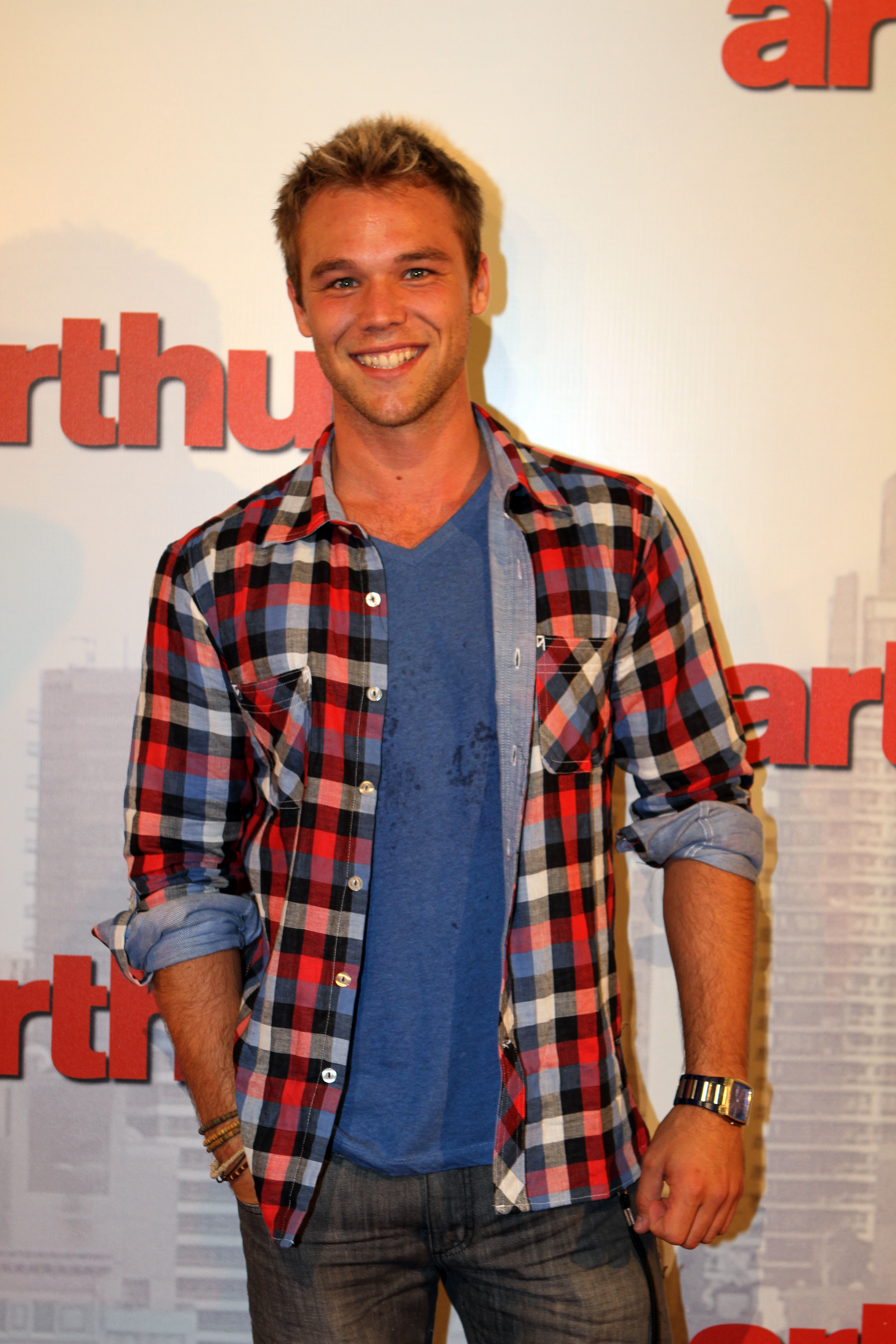 Actor Lincoln Lewis at the premiere of Authur